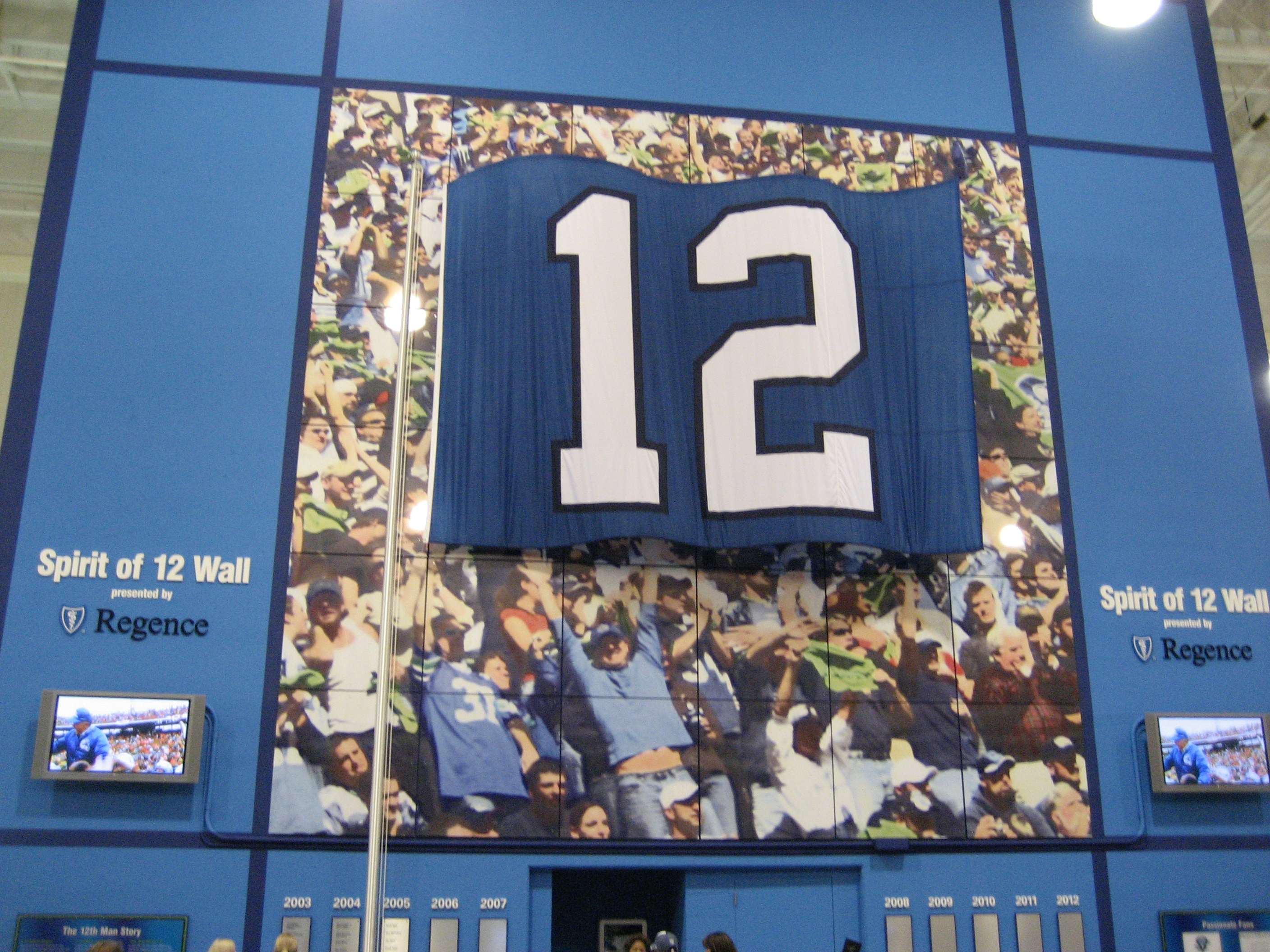 Spirit of 12 Wall. Much is made of the so called "12th Man" in Seattle, but originally, it wasn't the "12th Man." It was just 12 retired to the "Fans." Hence the #12 jersey just says Fan on the back. At the time for a newer, struggling and pre-cap era franchise, and in the Kingdome the fans really could take over games and provide the Seahawks with a special homefield advantage. With Paul Allen, and some of the executives they've brought in they wanted to get back in touch with that after being lost in the desert of the 90's. But I can't help but say this missed the mark. 12th Man: Bad #12 for the Fans: Good. In any case, this display is ment to publicly pay respect to that tradition, and the new 12th man tradition that seems to be arising from it.